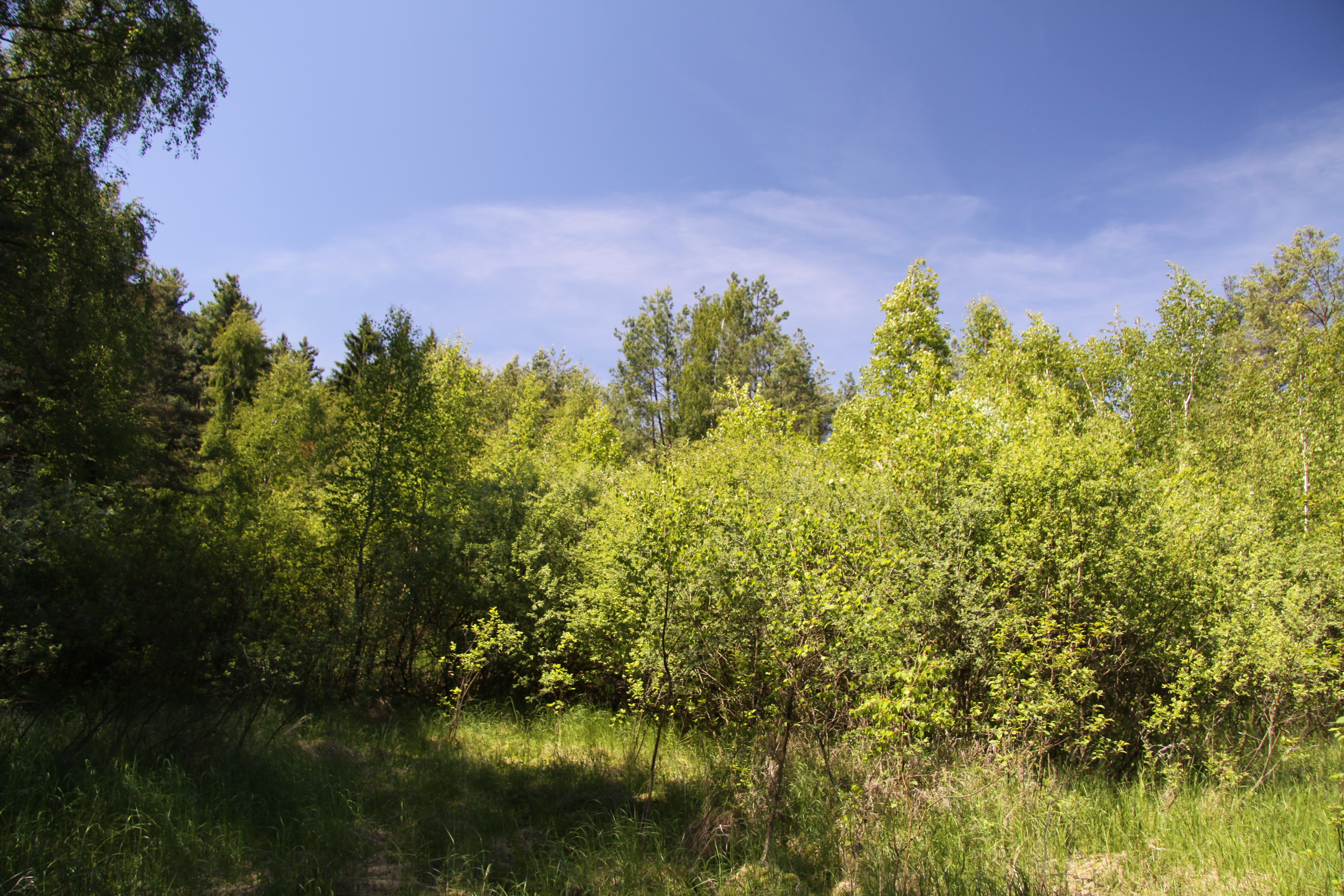 National nature reserve Ruda near Bošilec in České Budějovice and Tábor District, Czech Republic